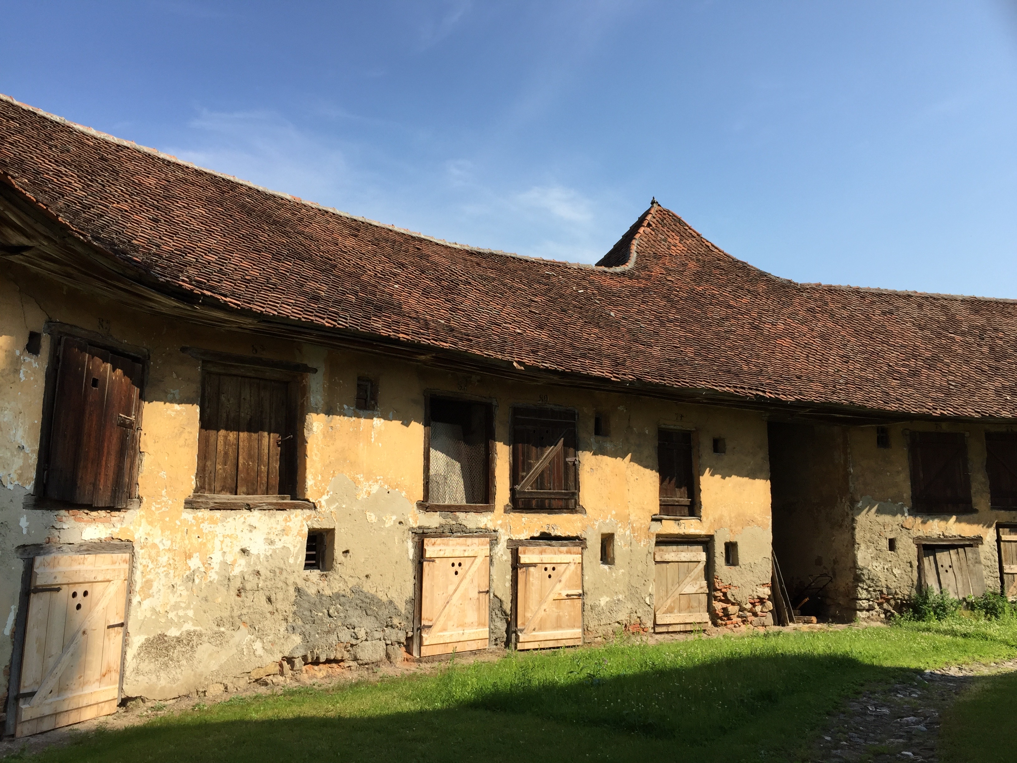 Storage rooms in the curtain wall of the fortified church of Sanpetru/Petersberg, near Brasov, Romania